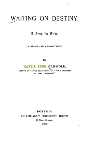 "Waiting on Destiny: A Story for Girls", by Hattie Tyng Griswold